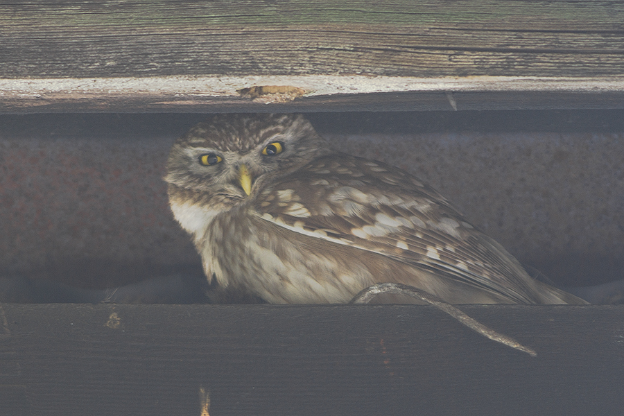 The species Little Owl had been photographed during the birding trip of GoingWild in Pangolakha Wildlife Sanctuary, East Sikkim, Sikkim, India on 13.02.2016.